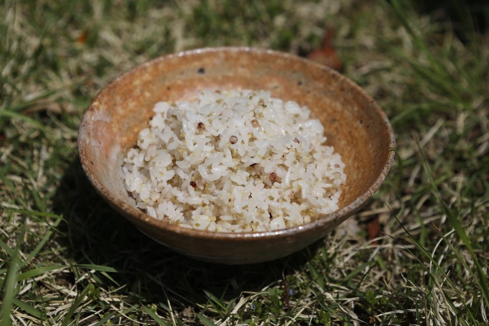 gijang-bap (proso millet rice)